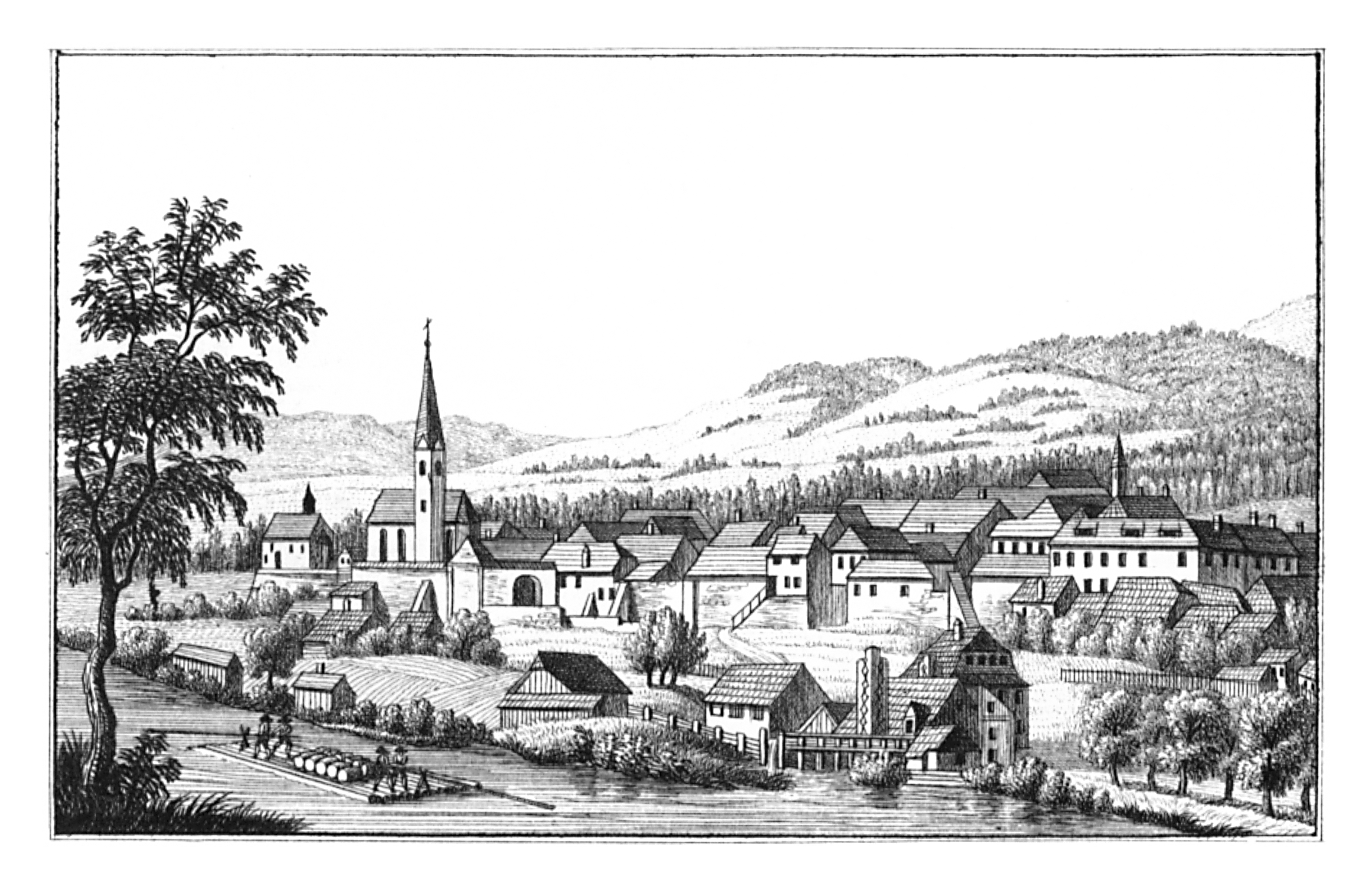 J. F. Kaiser - lithographirte Ansichten der Steyermärkischen Städte, Märkte und Schlösser, Graz 1824-1833 Joseph Franz Kaiser (1786–1859) Alternative names J. F. KaiserDescriptionAustrian printer and editorDate of birth/death 11 March 1786 19 September 1859Location of birth/death Graz (Styria) GrazAuthority control : Q1499963 VIAF: 30629353 ISNI: 0000 0000 3083 0153 LCCN: n87141671 GND: 129880159 NLP: A24960305 WorldCat creator QS:P170,Q1499963 . Scanprojekt Community Projektbudget 2012 This scan or this PDF-file was created within the GLAM-project Bookscanning, supported by Wikimedia Germany and Wikimedia Austria as a part of the community-project to capture books, documents and pictures which are not eligible to copyright or for which the copyright has expired. This document describes or depicts an object which is located in Austria today. Send requests for uncompressed scans to Hubertl. This work is in the public domain in its country of origin and other countries and areas where the copyright term is the author's life plus 100 years or less. You must also include a United States public domain tag to indicate why this work is in the public domain in the United States. This file has been identified as being free of known restrictions under copyright law, including all related and neighboring rights.